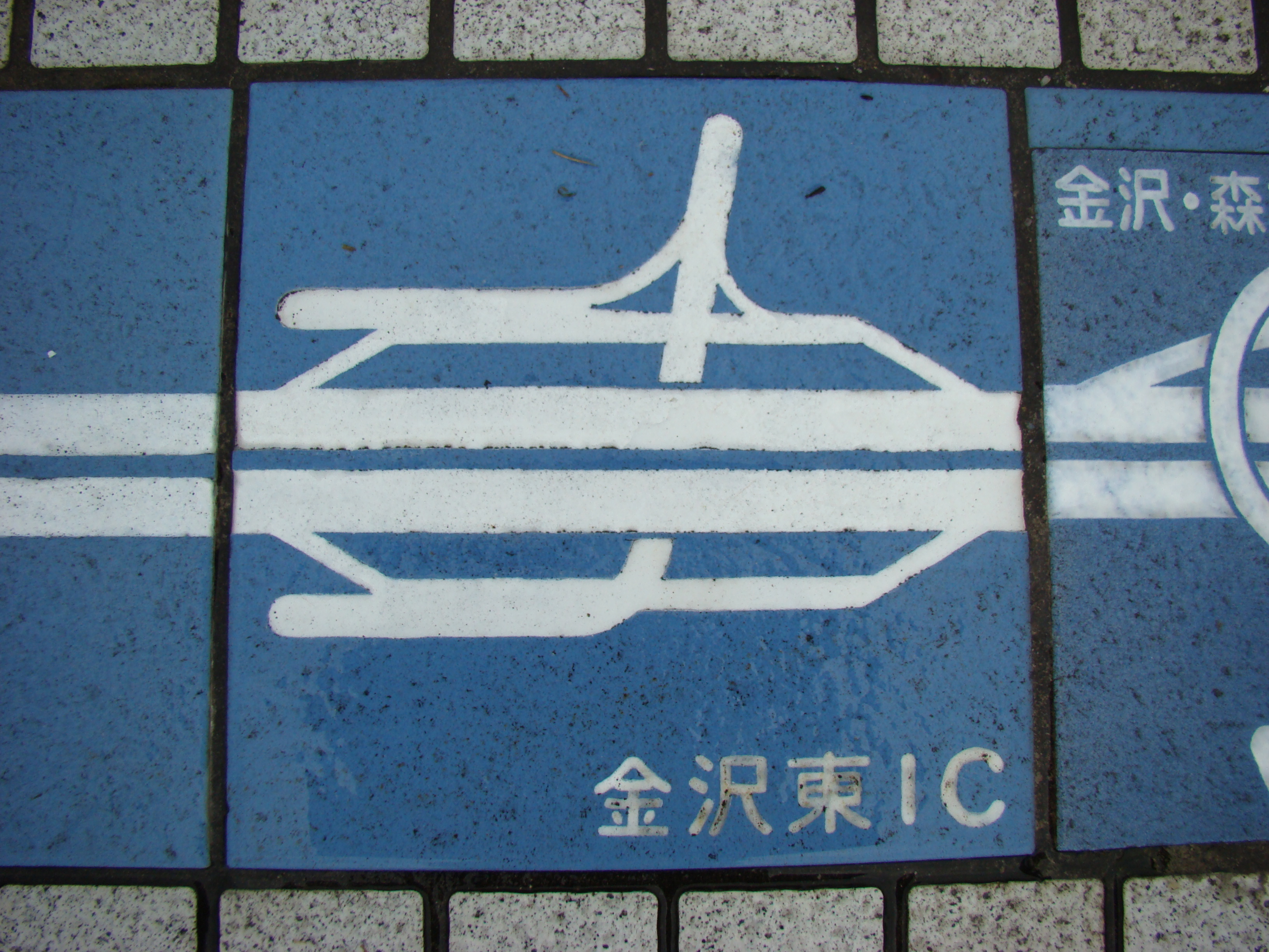 The tile which designed a shape of the Kanazawa-Higashi Interchange（Hokuriku Expressway）（There is this tile in Hokuriku Expressway Nadachi-Tanihama Service Area.）. Place - Chayagahara,Joetsu City,Niigata Prefecture,Japan Date - August 9, 2009 Format - JPEG, 3264x2448pixel, 24bit colors. Photographer - NALA Wiki (talk)